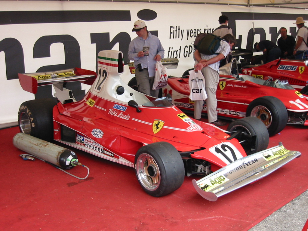 Niki Lauda's Ferrari 312T from 1975 on display.